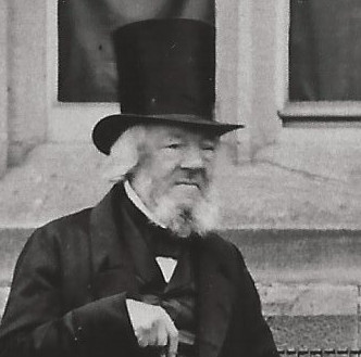 Reverend Benjamin Godwin in Rawdon - He was a baptist and abolitionist. His son was John Venimore Godwin who was an early photographer who became a Mayor of Bradford